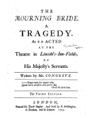 Frontispiece of Congreve's play published in 1703, in the public domain.